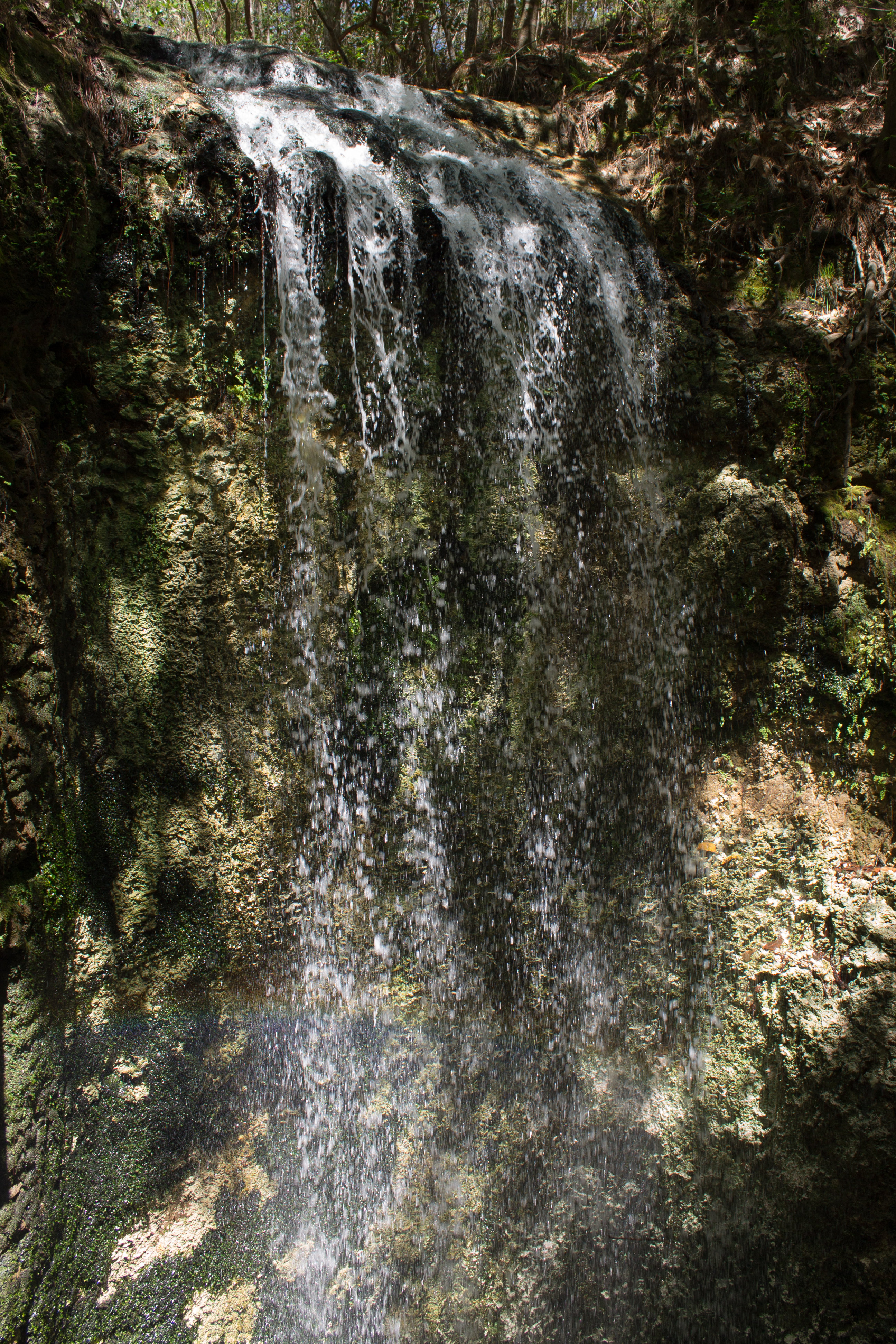 The waterfall, and namesake, of Falling Waters State Park in Florida. It is the tallest waterfall in the state of Florida.